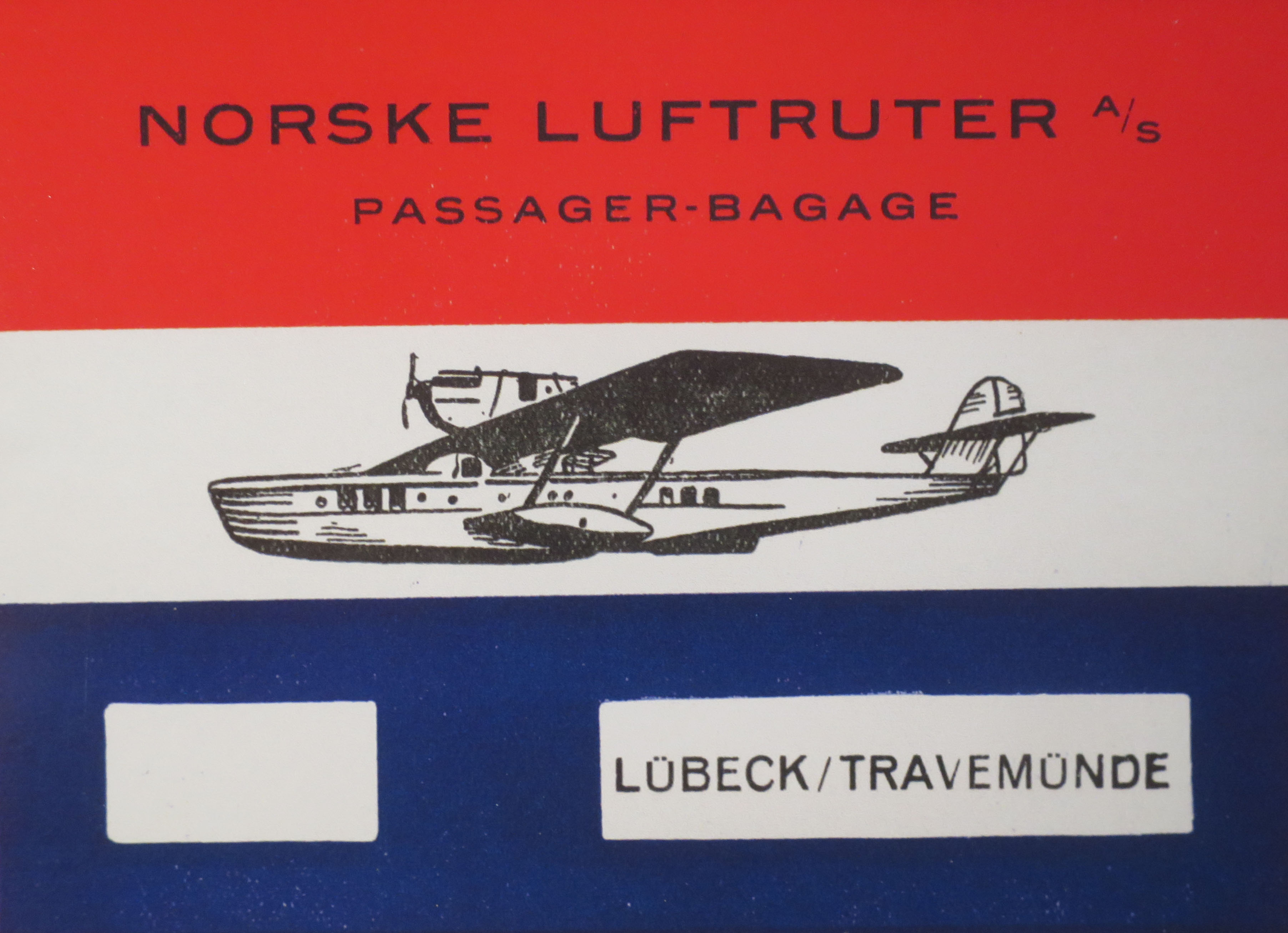 Baggage-Label of Norske Luftruter